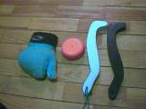 Equipments of underwater hockey.